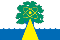 Dubna (Moscow oblast), flag (2003)